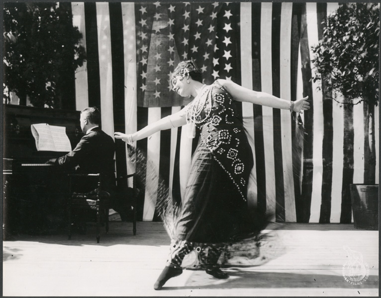 From the program for the silent movie: "Danserindens Kærlighedsdrøm" (DK/US: 1916). Marketing pamphlet